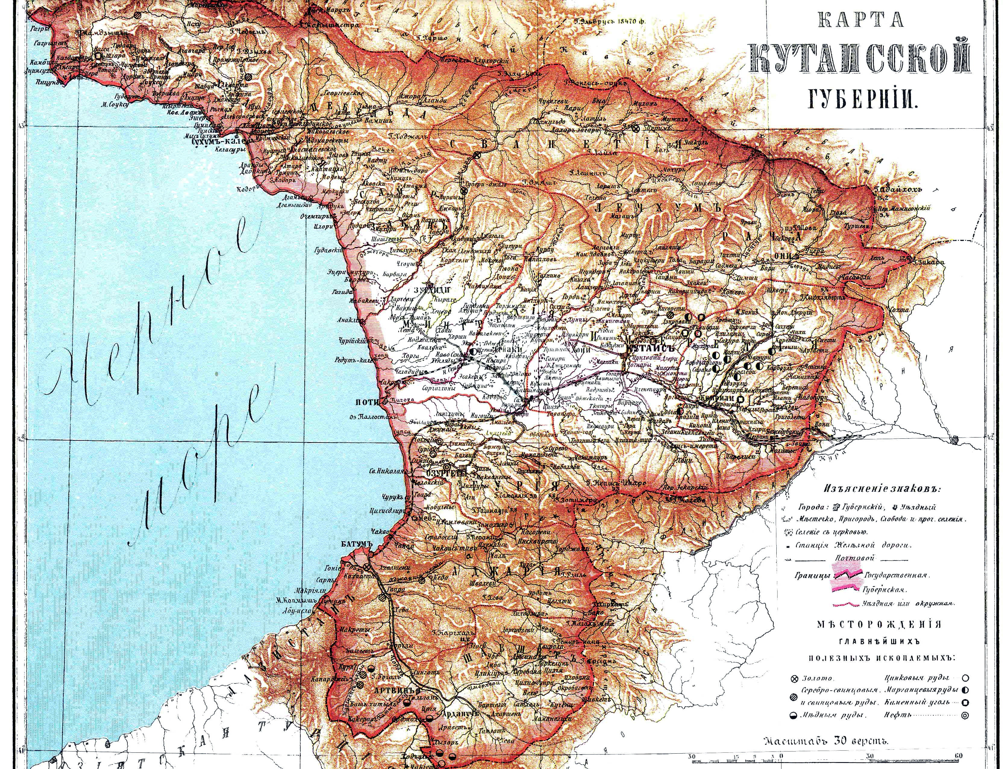 Kutaisi Governorate. Russian Empire, XIX and beginnig XX century, today Georgia